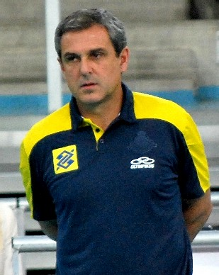 Ze Roberto, volleyball coach from Brazil